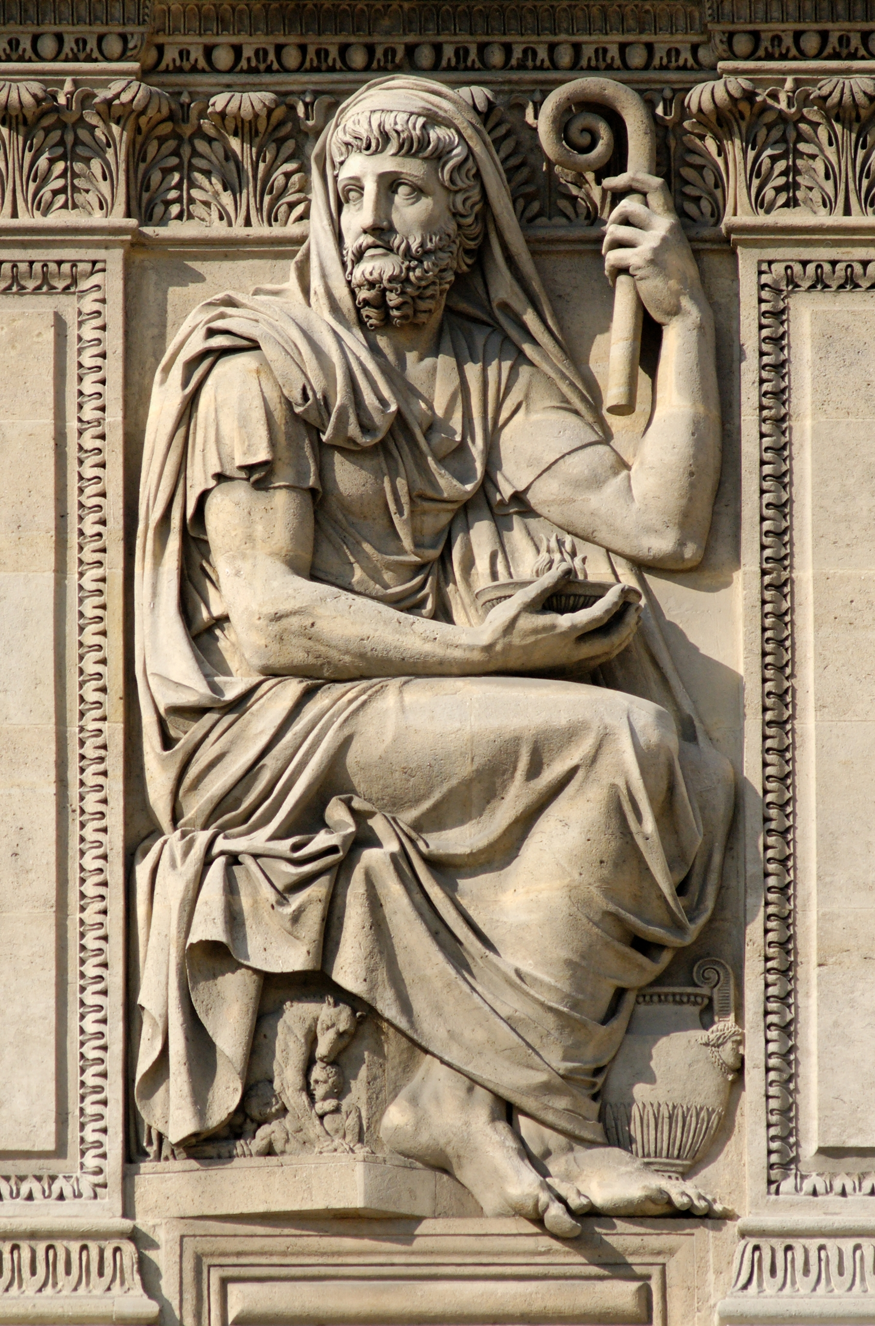 Numa Pompilius by Jean-Guillaume Moitte, 1806. Relief on the right of the left window, right part of the west façade of the Cour Carrée in the Louvre Palace, Paris.